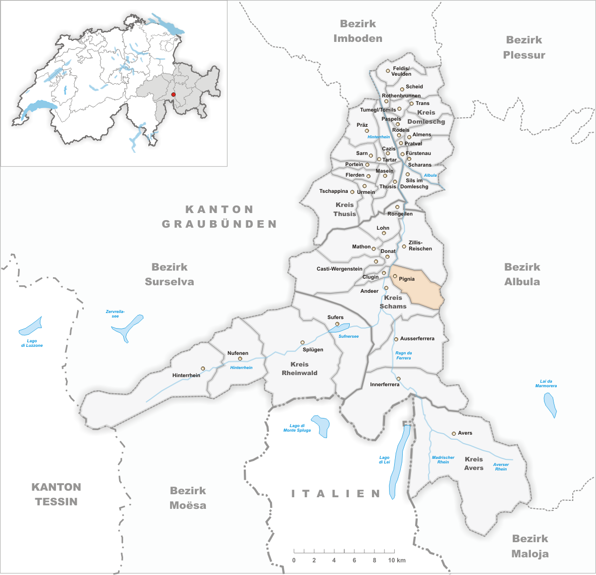 Municipality Pignia